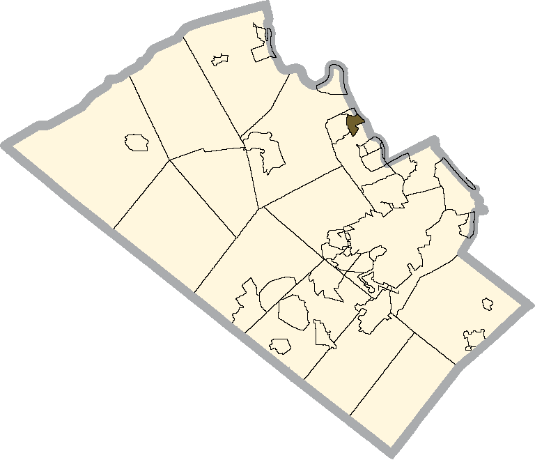 Cementon shaded on map of Leigh county.